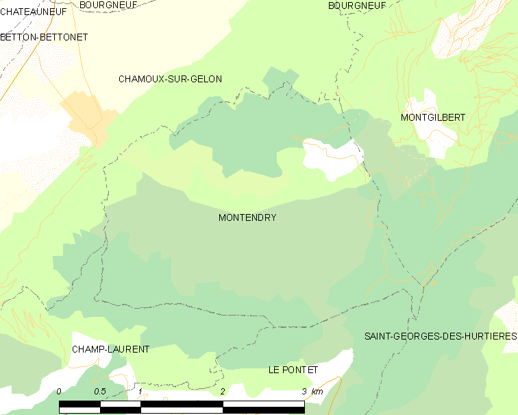 Map of French municipality